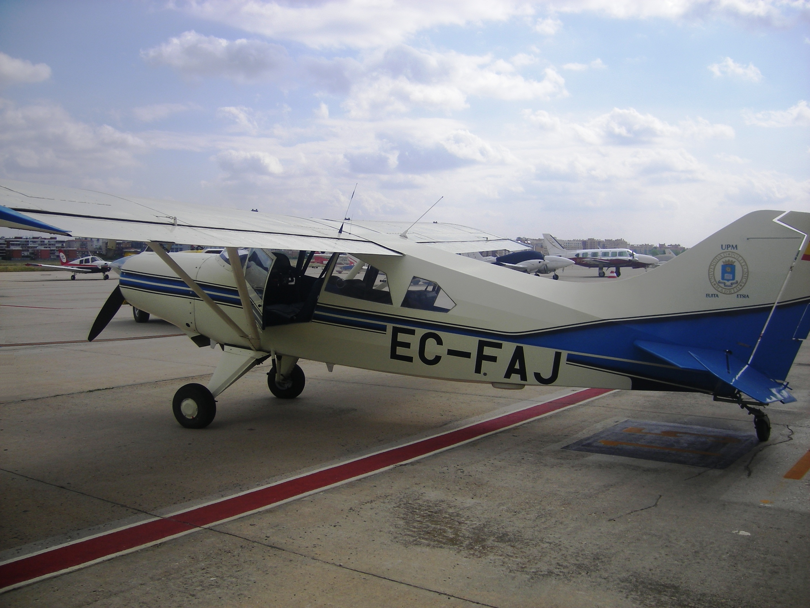 Maule MX-7-180 of the Polytechnical University of Madrid at Madrid-Cuatro Vientos Airport.